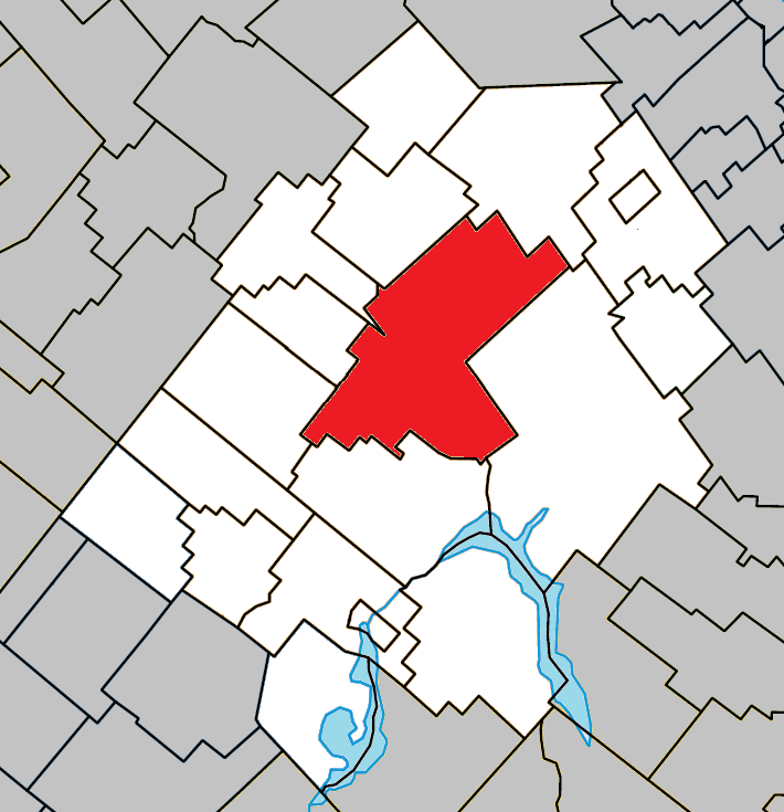 Location of Thetford Mines, Quebec within Les Appalaches Regional County Municipality.